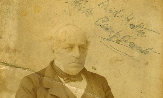 Photograph of Theophilus Carter (1824-1904) from about 1894